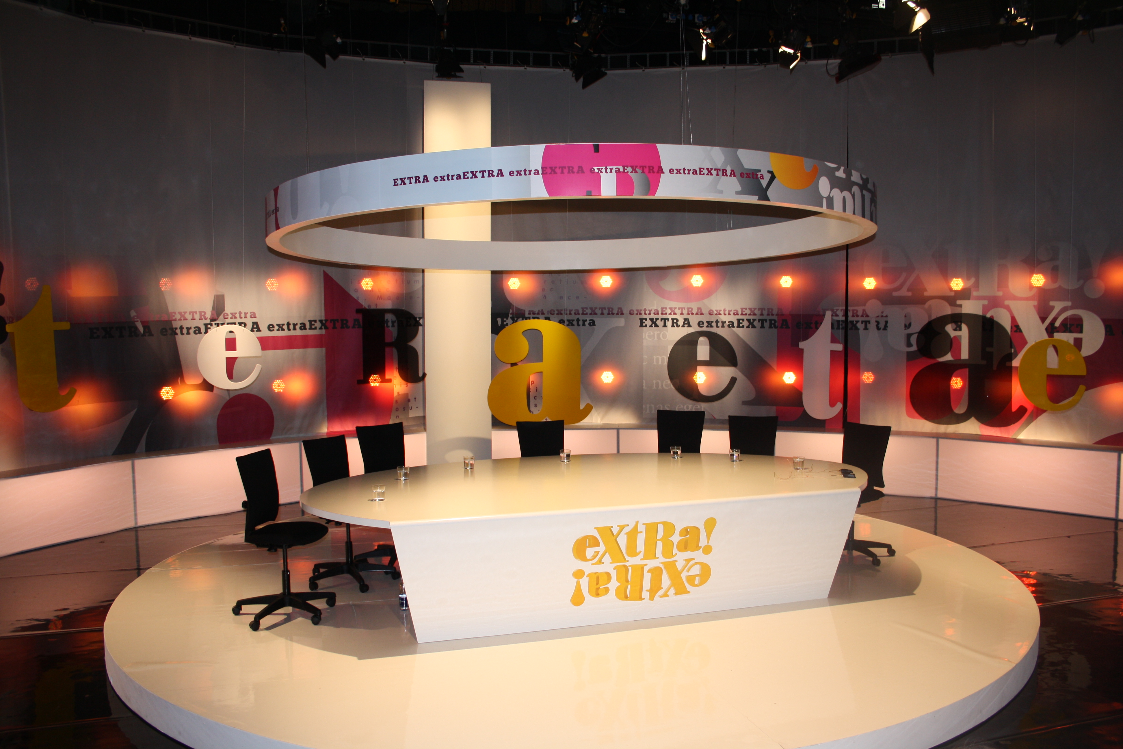 TV studio of Extra! Extra!